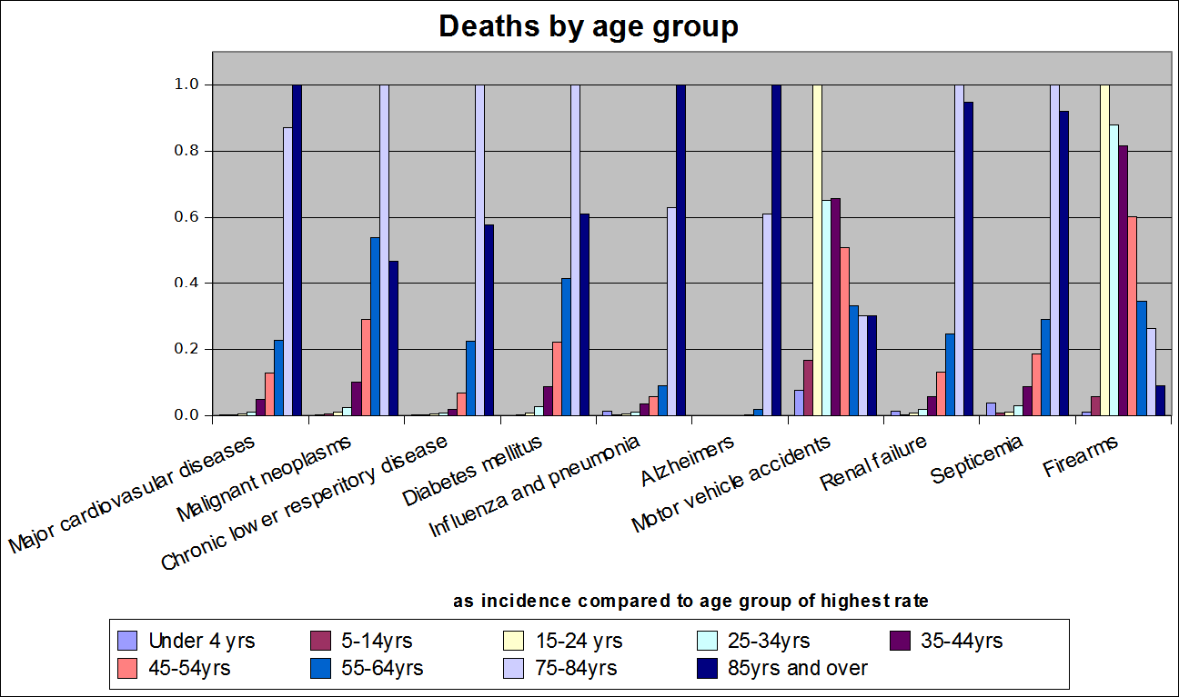 Deaths by age group (see List of causes of death by rate) with rightmost four clusters fixed